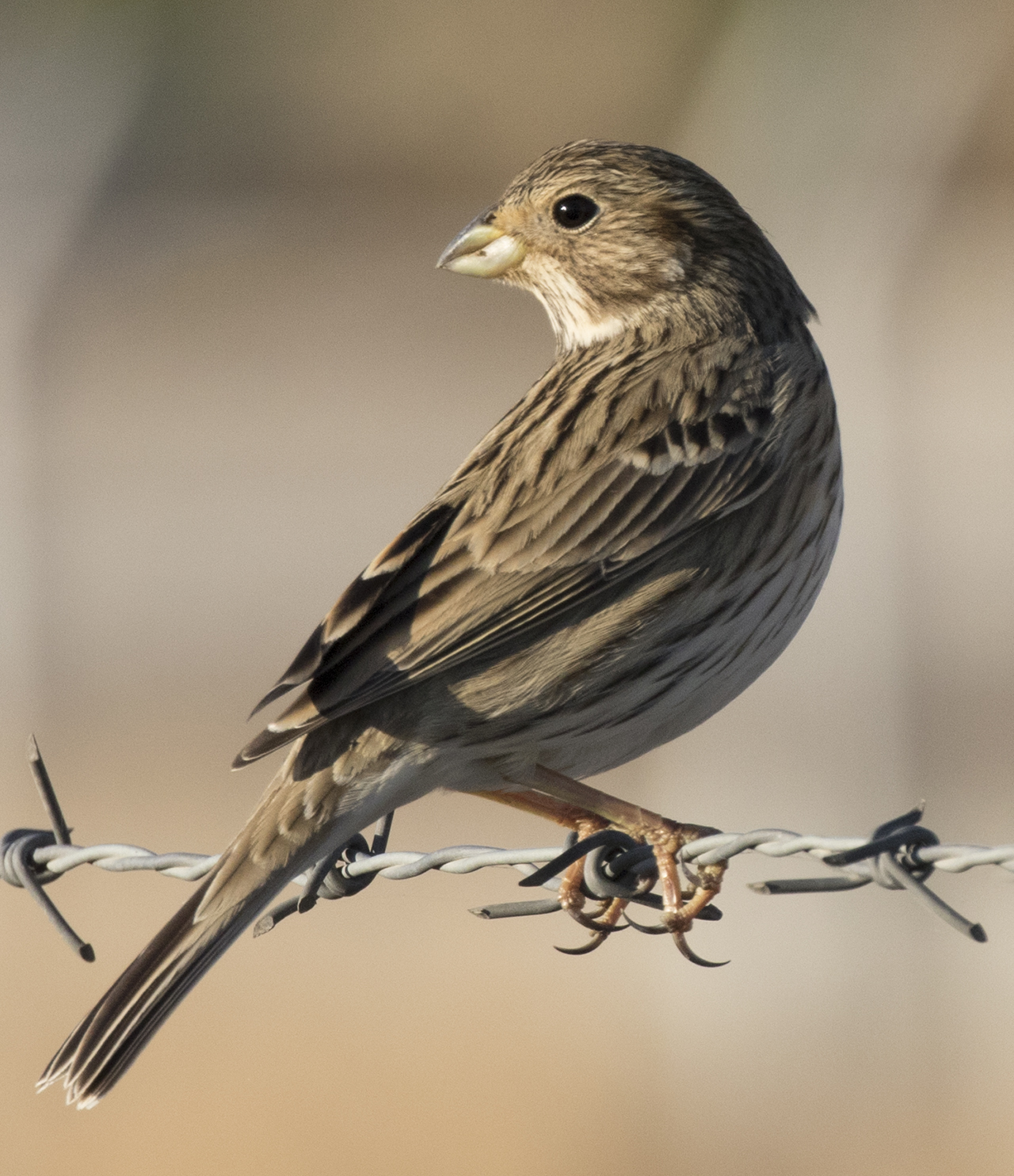 Corn Bunting (Emberiza calandra) in Afşar Village, Kahramanmaraş - Turkey.